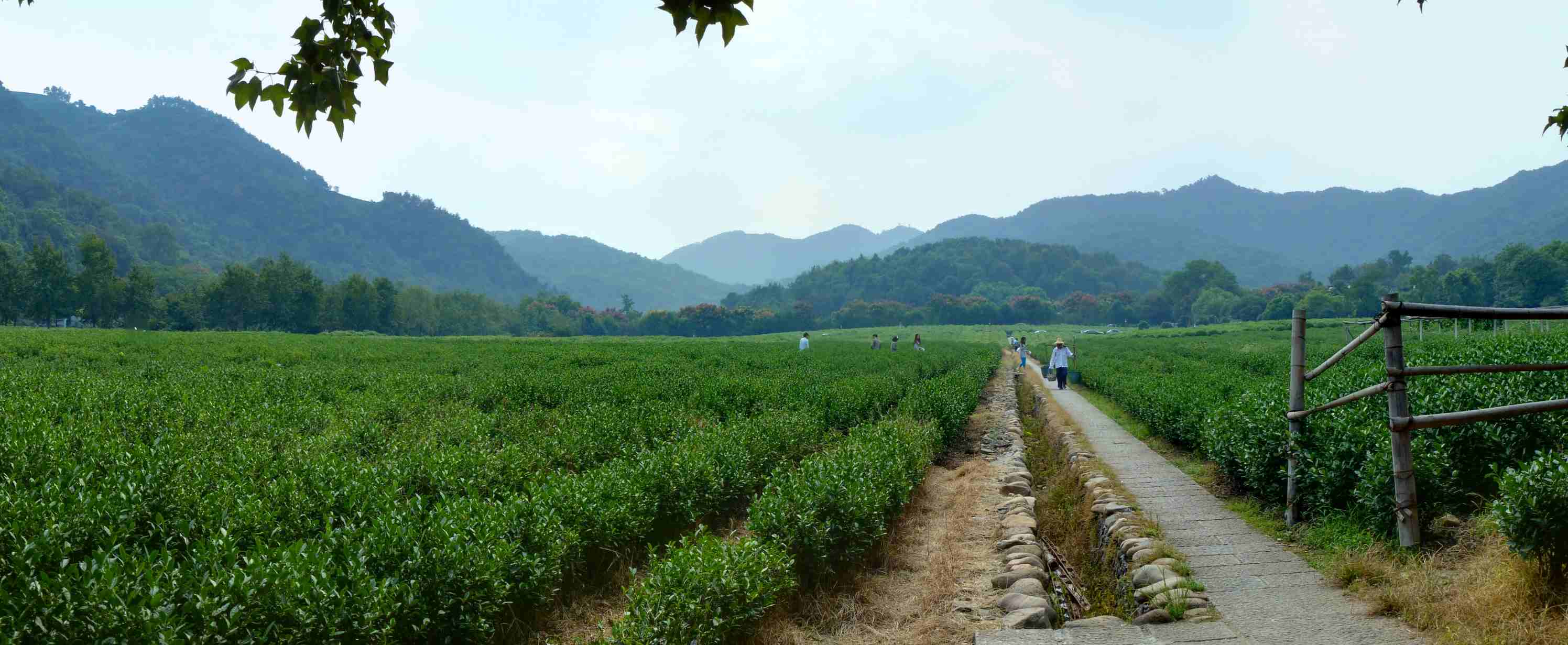 Tea plantation at the China National Tea Museum